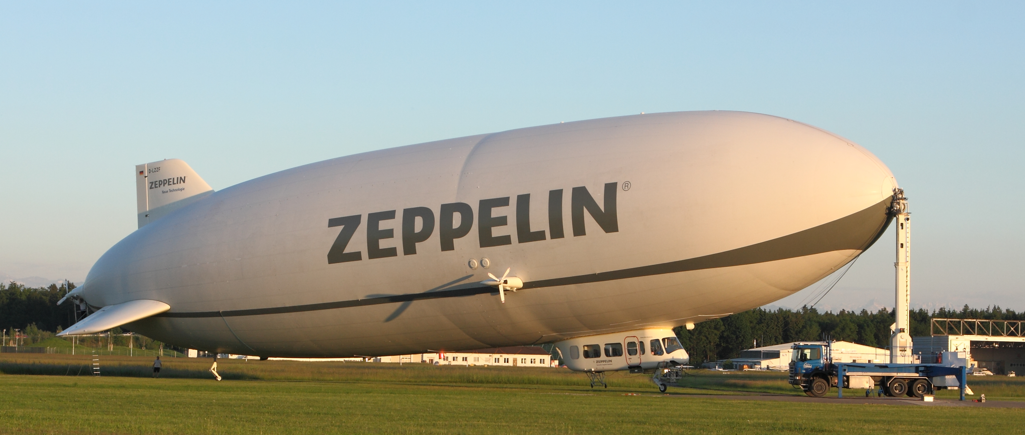 Zeppelin NT